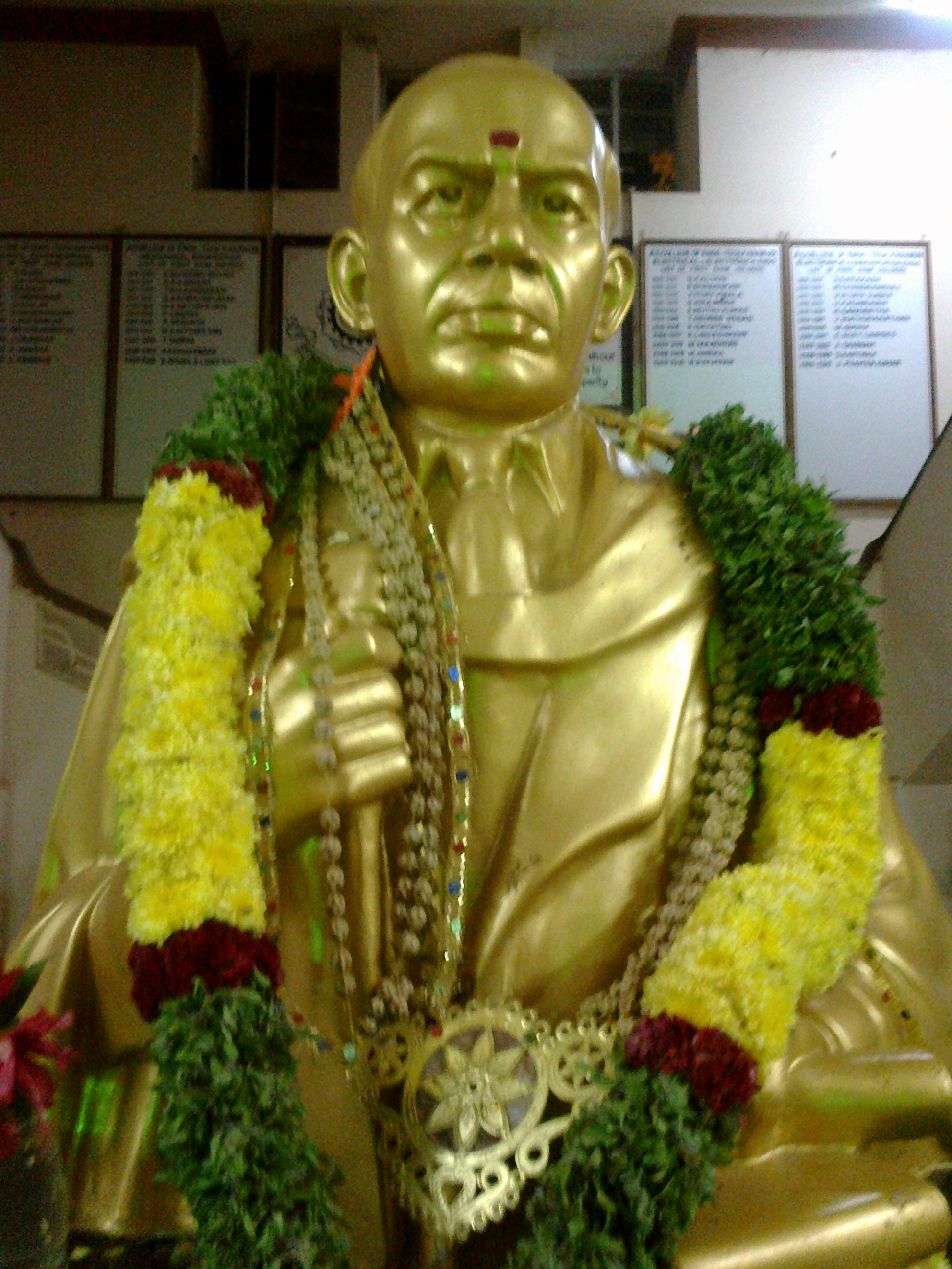 To memorable statue of Alagappa Chettiar who was the founder of Alagappa chettiar college of Engg & Tech, Karaikudi. He was one of the Kalvi Vallal. He was provided so many to our government.